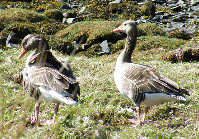 Greylag Geese (Anser anser)